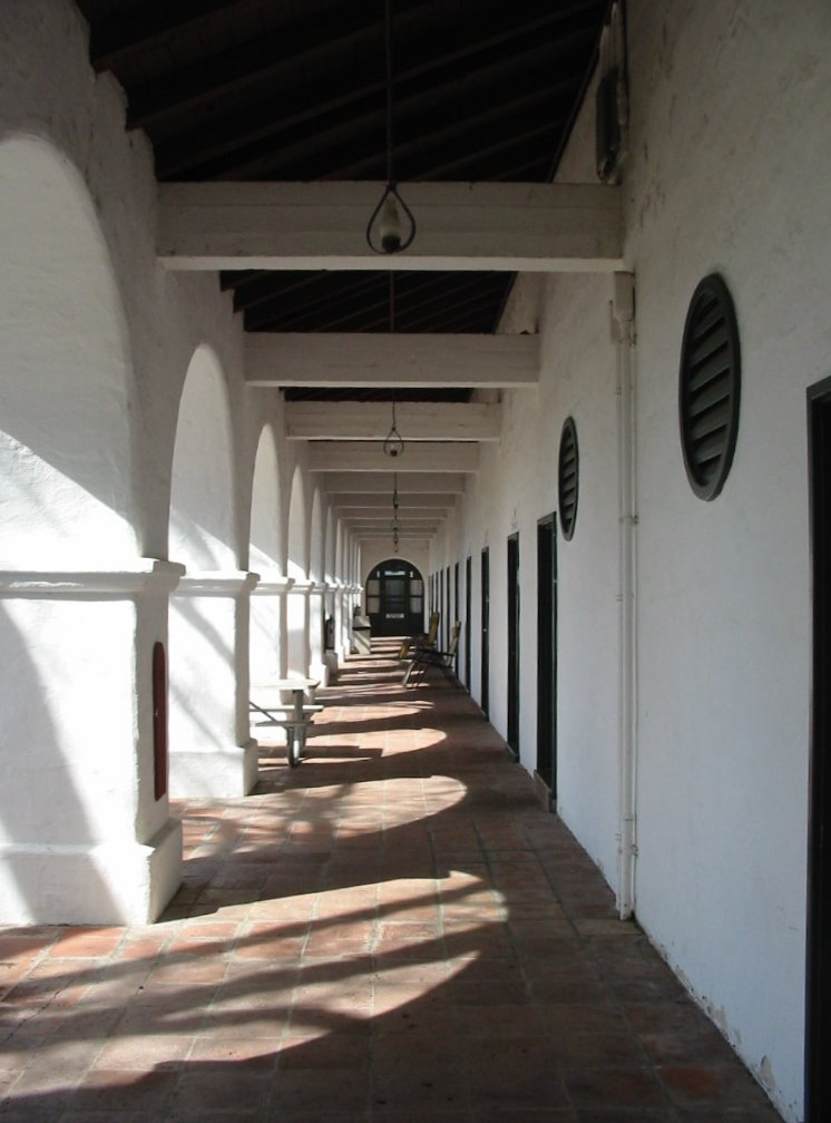 West-facing corridor of the building known variously as The Hacienda, Hacienda Guest Lodge, Milpitas Ranch House, Milpitas Ranchhouse, and Milpitas Hacienda. This building was completed in 1930 by William Randolph Hearst and his architect Julia Morgan. It's operated today as a public hotel within the Fort Hunter Liggett US Army Reserve base.